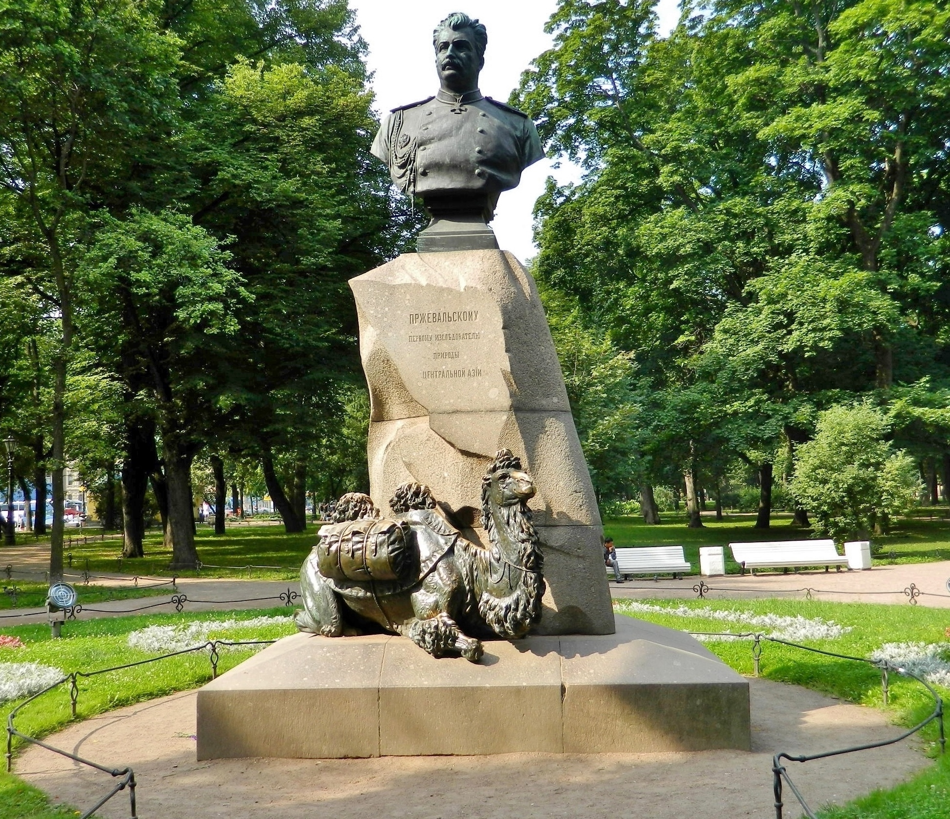 Monument to Nikolay Przhevalsky in the Alexander Garden, Saint Petersburg